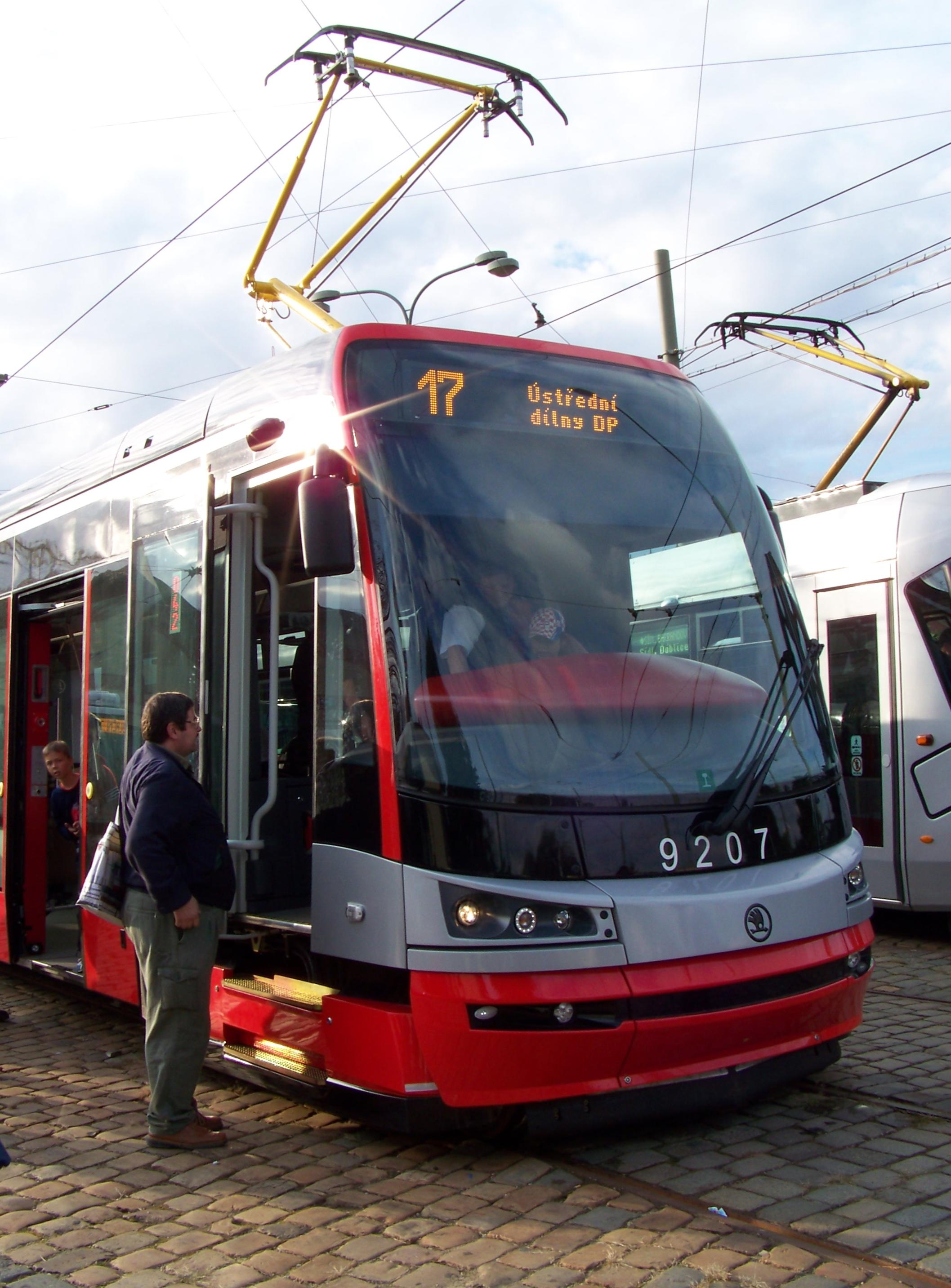 Prague-Střešovice, the Czech Republic. Open Doors Day of Urban Transport Museum. A tram Škoda 15T. - Google Maps - Google Earth